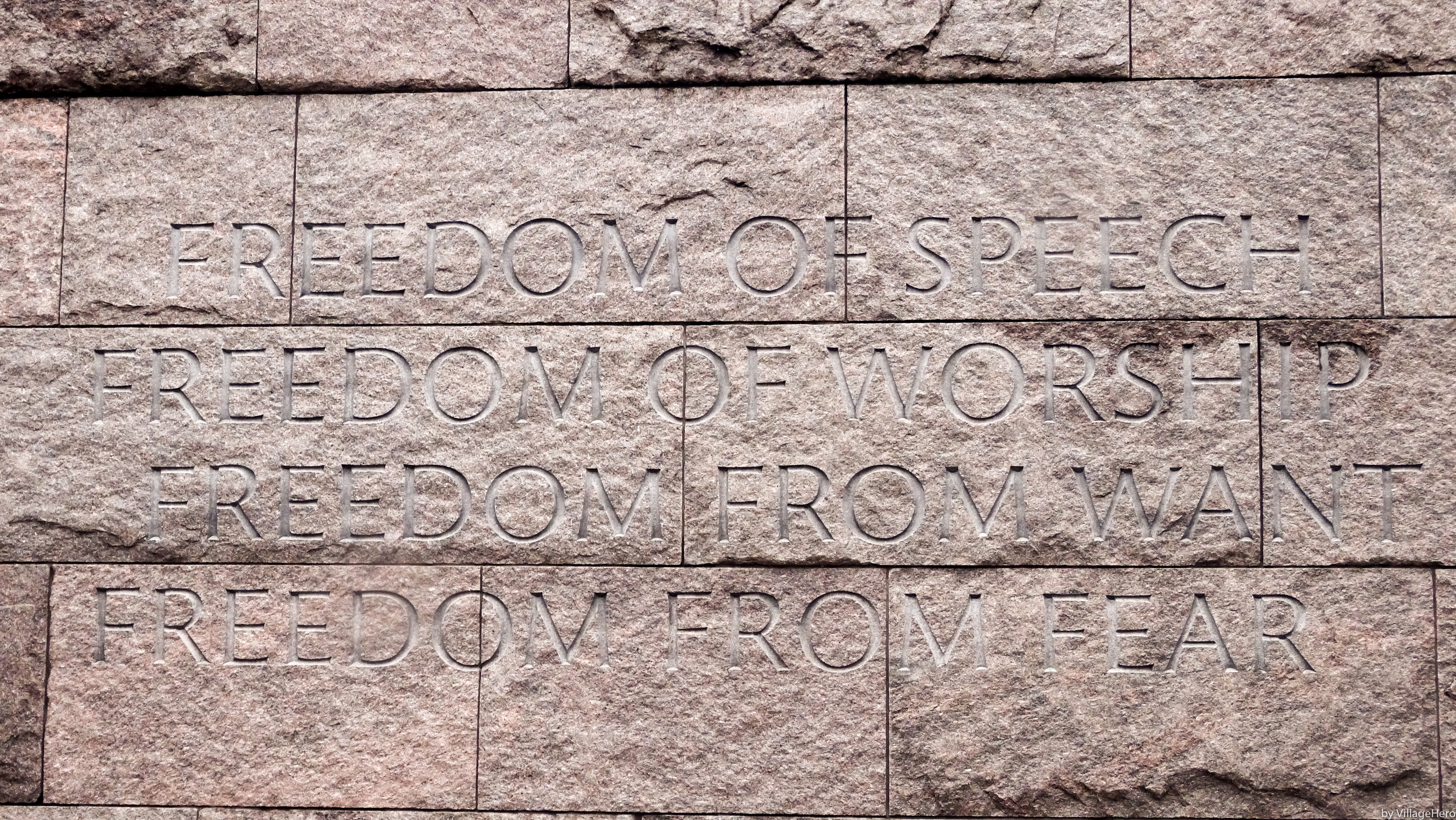 Franklin Delano Roosevelt Memorial (Washington) by